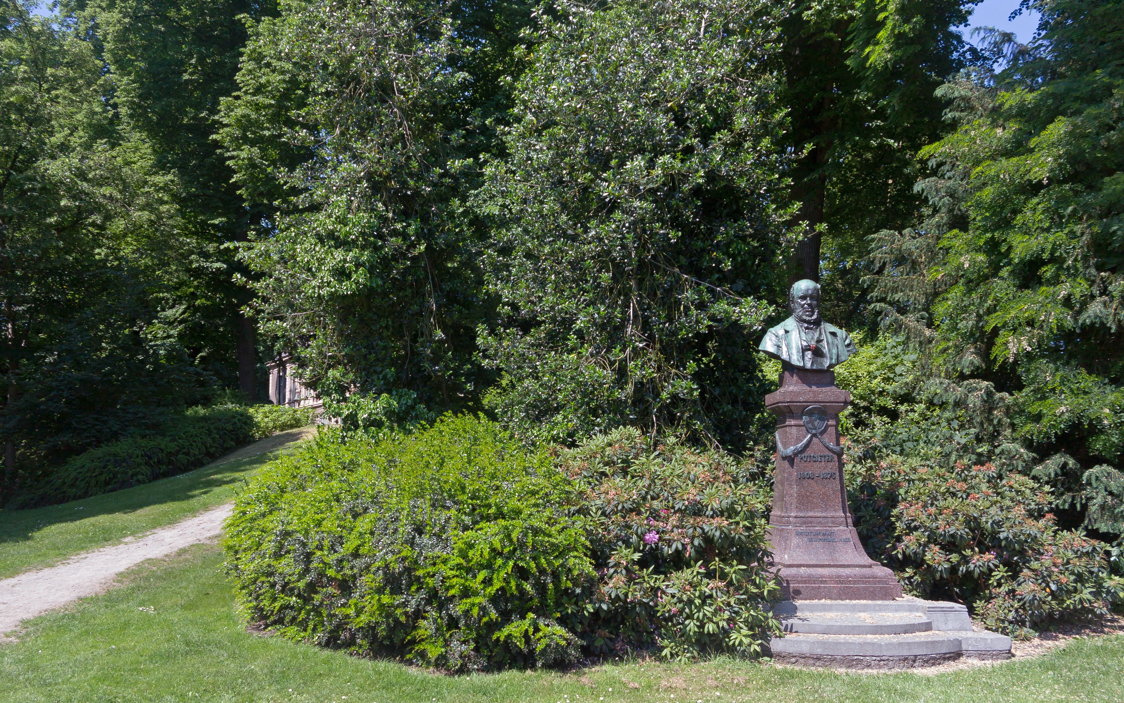 Zwolle, sculpture - Everhardus Johannes Potgieter